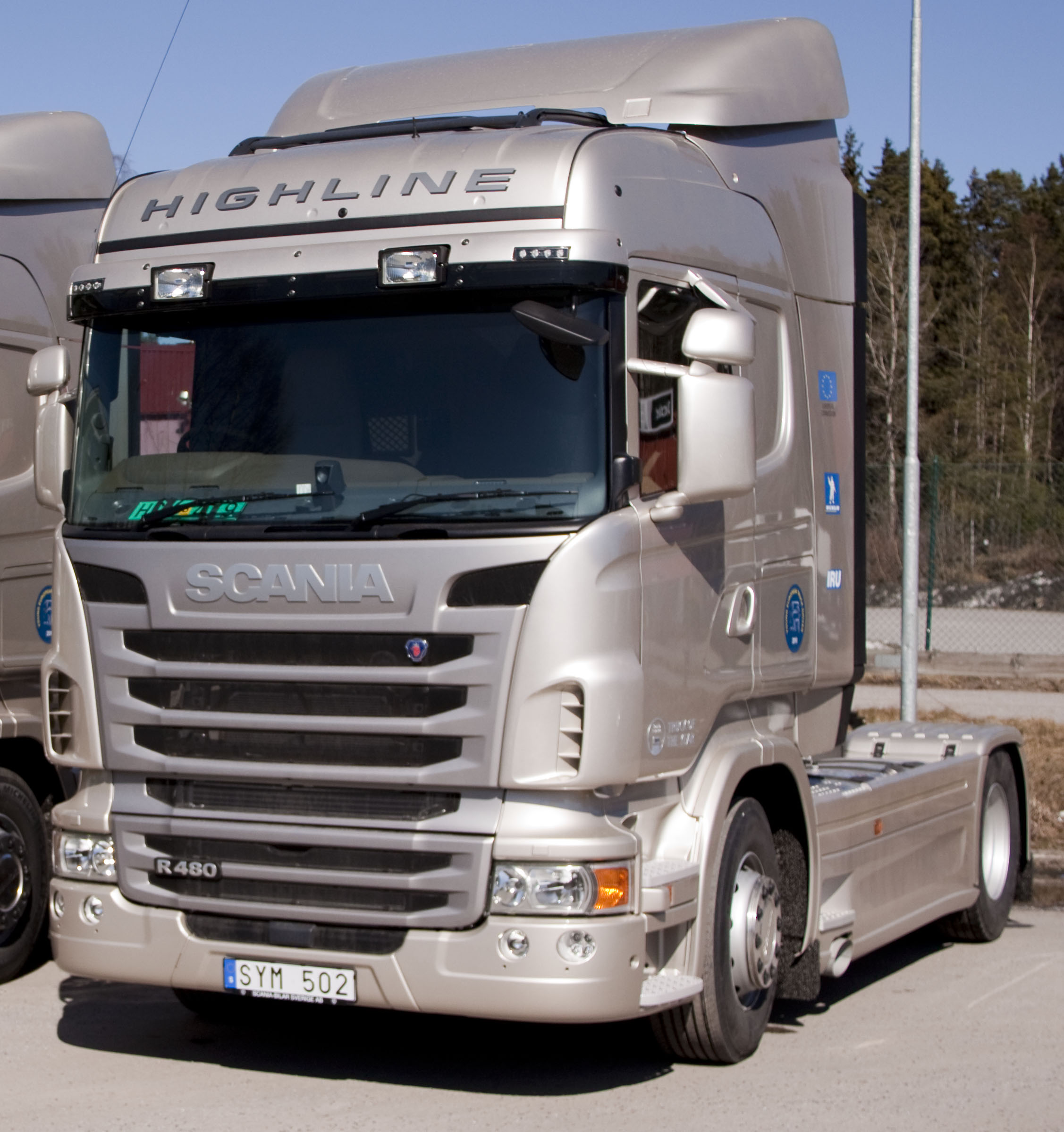 Scania R480 Highline.